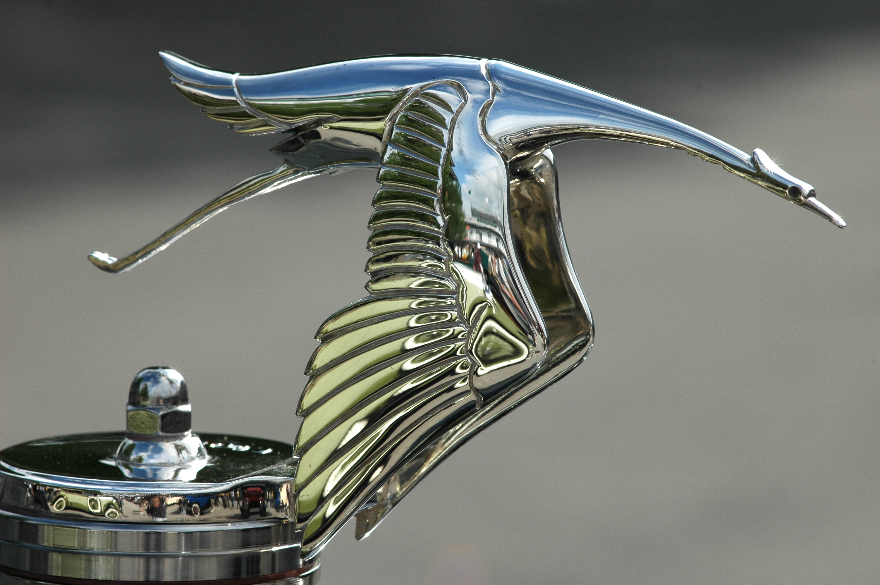 A Hispano-Suiza hood ornament (stork), from the 1920's or early 1930's.